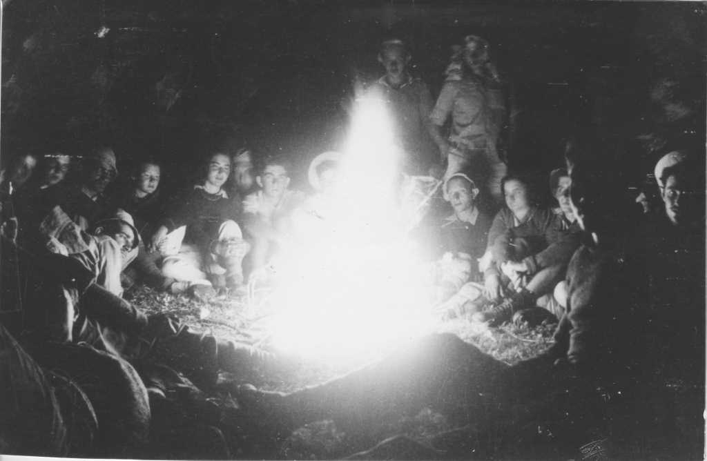 The Palmach, Israel Defense Forces